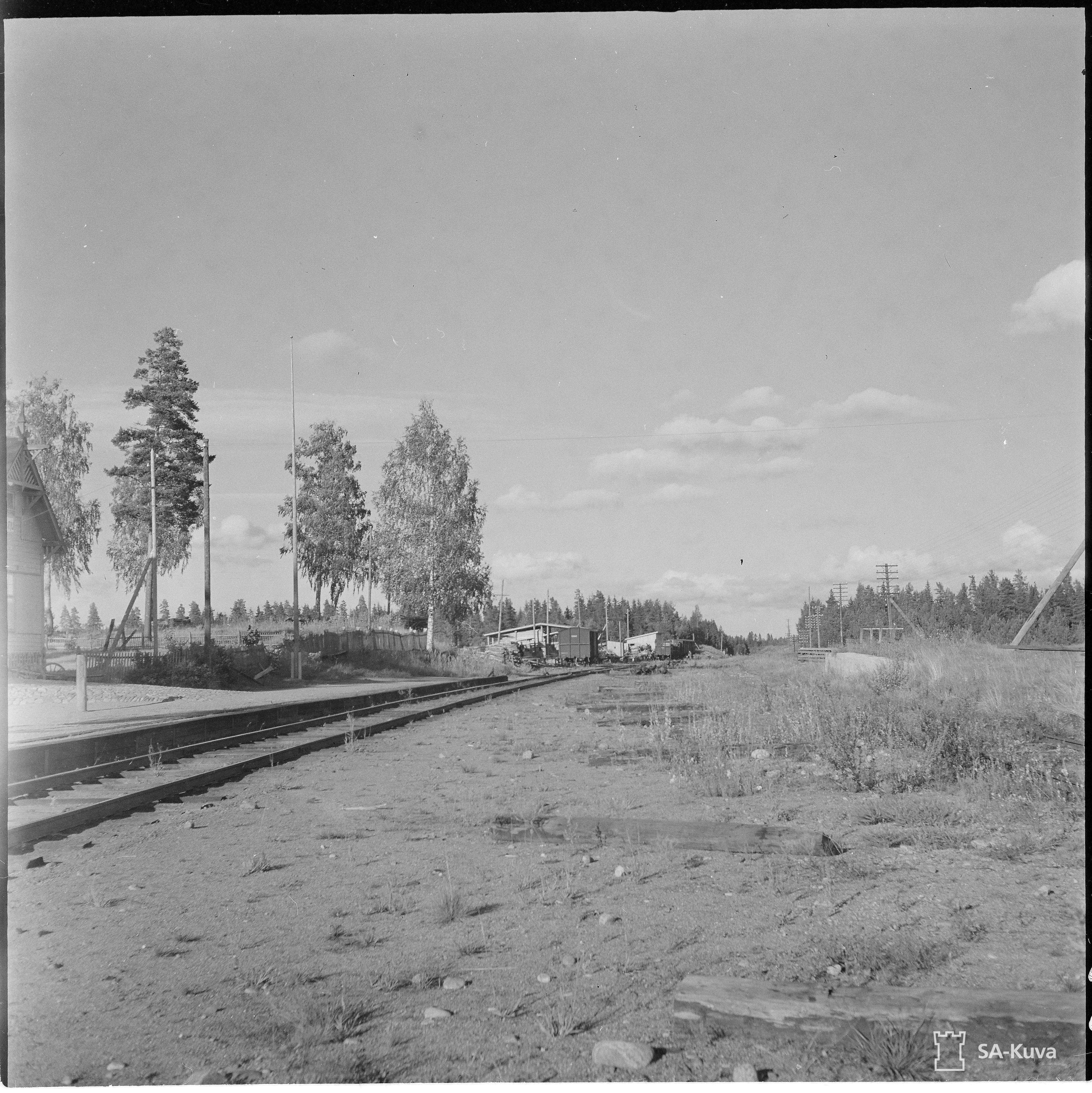 Akkaharjun pyskin maastoa nhtyn Mikriln suunnasta. Pyskin valtasi I/JR 28 saaden saaliiksi m.m. veturin ja 10 vaunua.